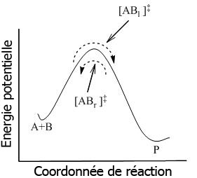 Potential-energy diagram